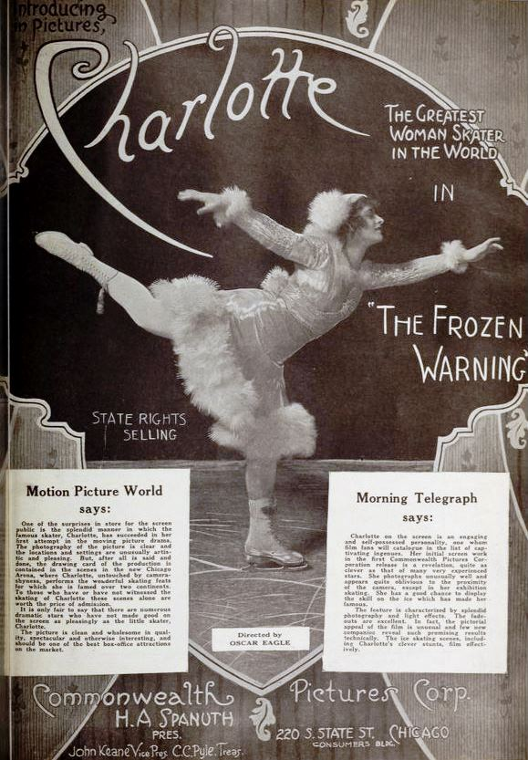 Advertisement for the American drama film The Frozen Warning (1917) with Charlotte Hayward (stage name of skater Charlotte Oelschlägel), on page 11 of the December 22, 1917 Exhibiters Herald.